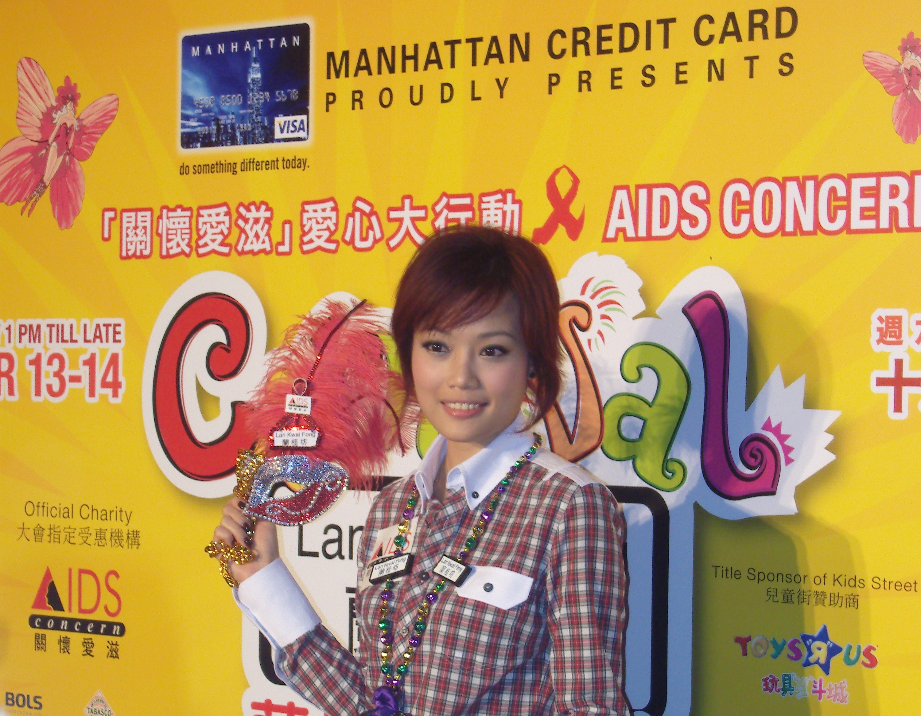 Hong Kong singer Joey Yung (容祖兒) at the 2007 Lan Kwai Fong Carnival in Lan Kwai Fong, Central, Hong Kong.